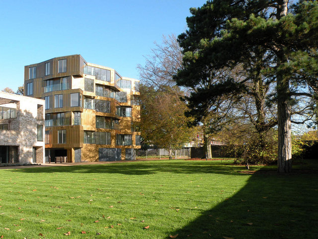 Alison Brooks Architects (ABA) designed "Brass" building, Accordia, Cambridge, England